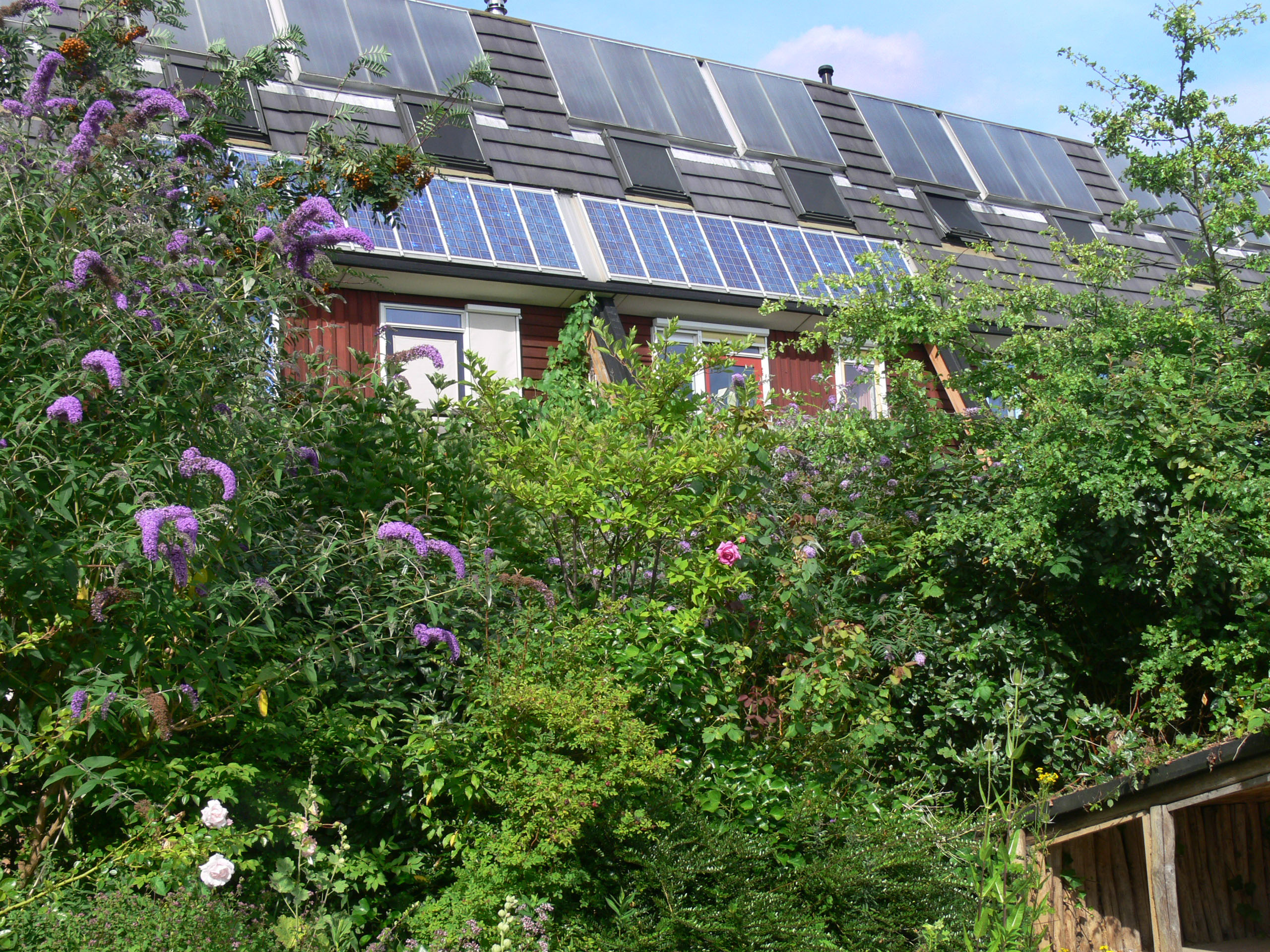 Hedge for private space in E.V.A. Lanxmeer district (a "green distric" named Lanxmeer, built at Culemborg, The Netherlands), wich is a recent (1994-2009) district (semi-public eco-building) of approximately 250 ecological houses, several offices and a urban farm. The project is based on "Sustainable Implant" with a spatial combinaison of natural systems, technical approach of integrated waste (wastewater) / energy system and écological and social purposes, for an urban neighborhood. The district is in an ecologically sensitive area (former drinking waterextraction and retention area). The conception of this district is based on permaculture, and organic design, a small biogas installation (able to treate black water and organic waste and garden & park waste), a combined Heat Power. Some houses are in closed greenhouse. A semi-public building (the ‘EVA Centre) should yet be made, based on the Living Machine concept.